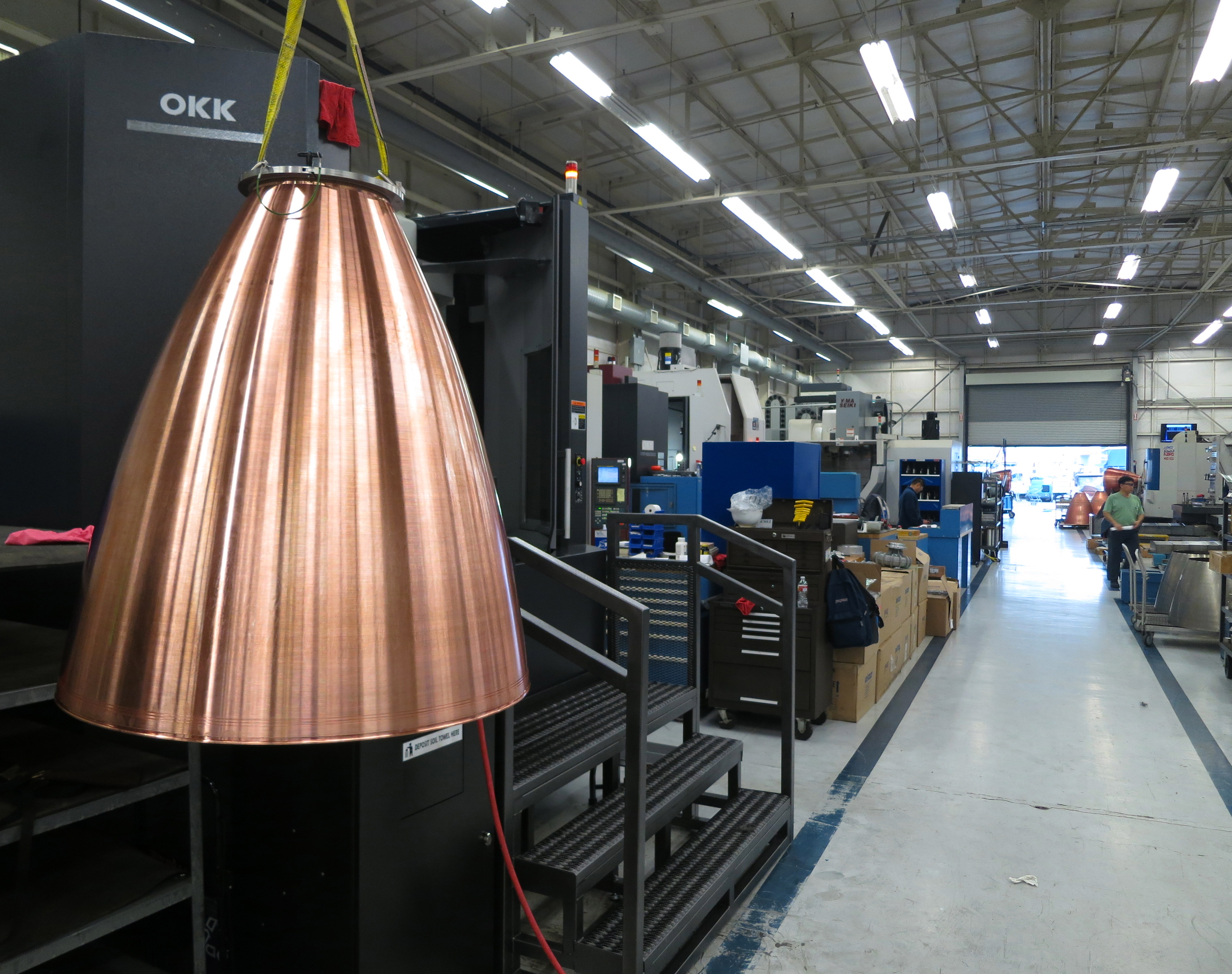 A separate building contains the manufacturing flow for the Merlin 1D engines. The shiny nozzle here has channels etched vertically in it for the fuel to run down and back up, keeping the nozzle from melting during use. The nozzles at the far end of the room have those channels and are ready for a metal jacket to cover them. This is much more elegant than the individual brazed tubes used in the earlier Merlin engines , or the RL-10 used on other rockets.